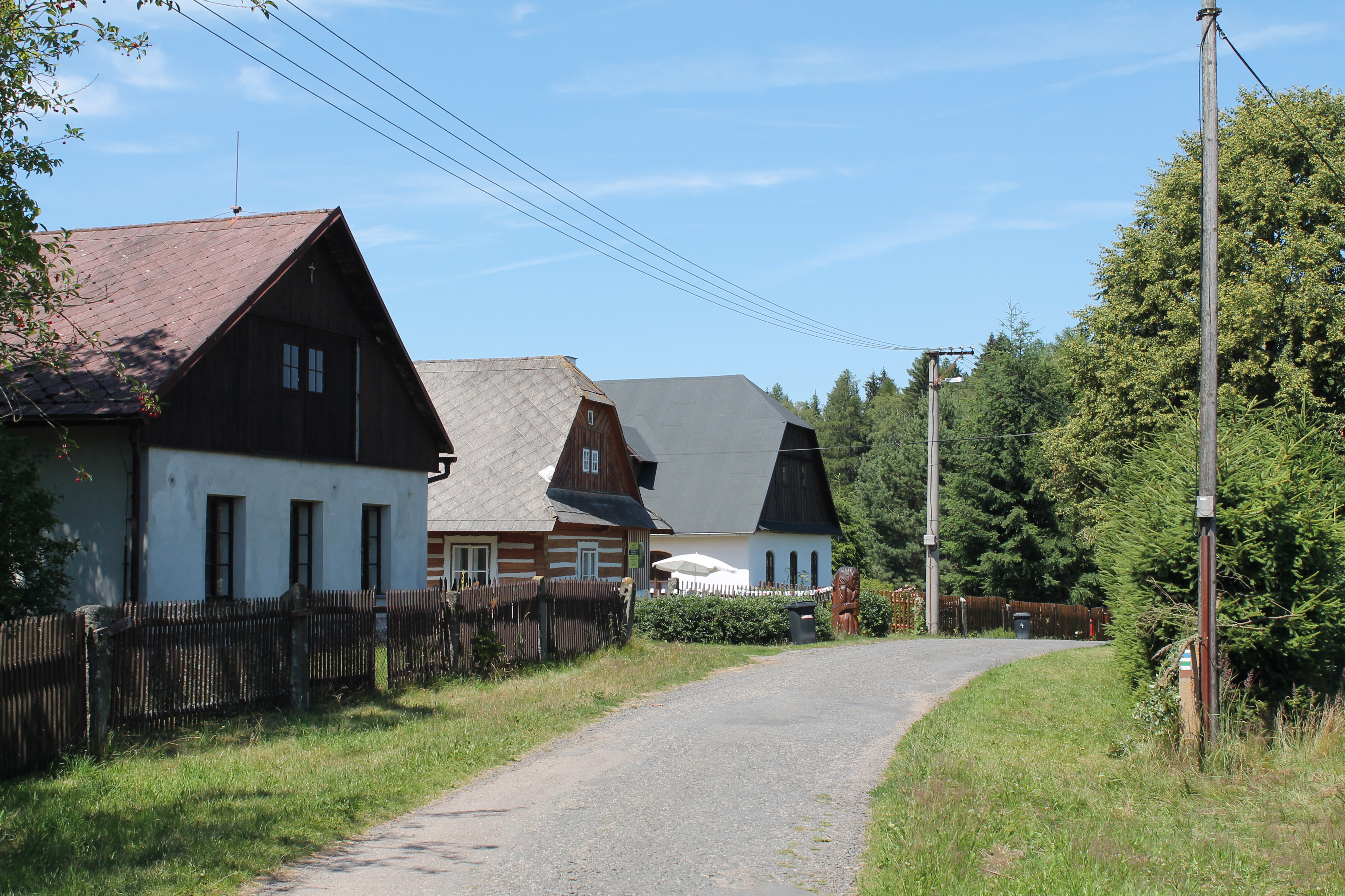 Horní Babákov, Holetín, Chrudim District, Czech Republic